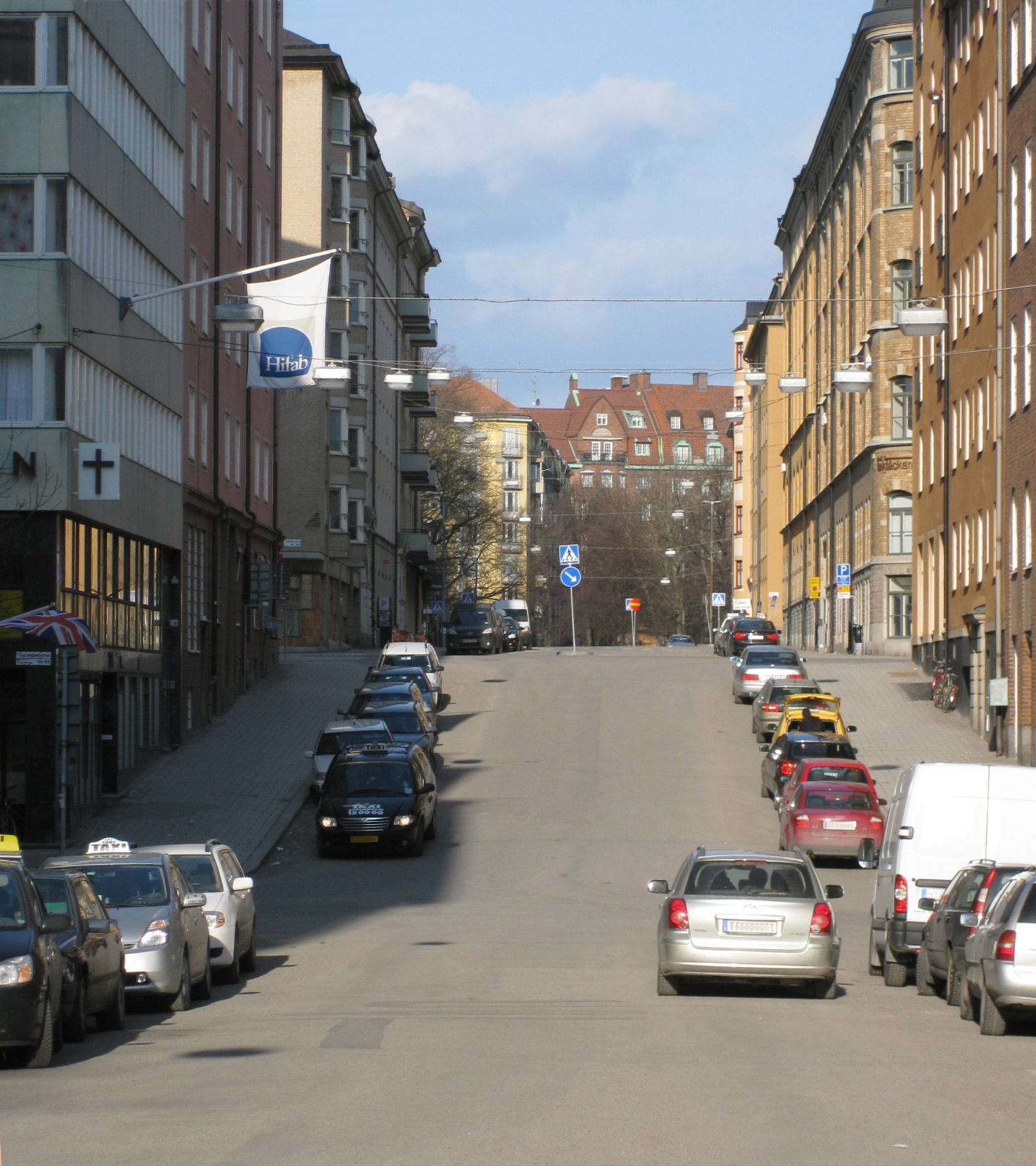 Rehnsgatan, Stockholm, seen from Sveavägen.